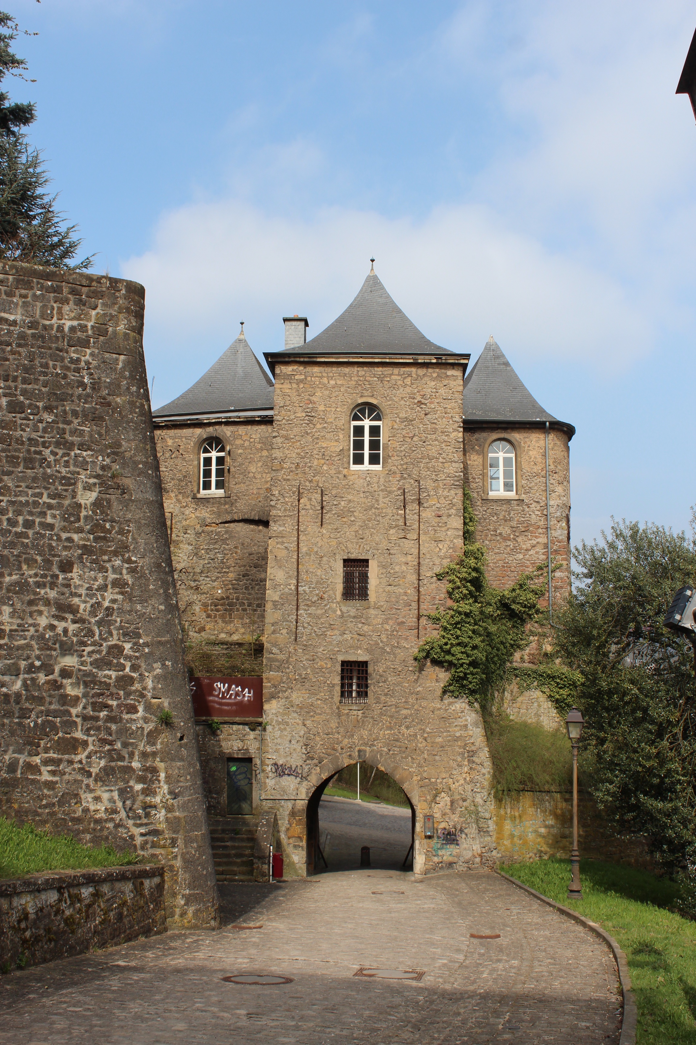 Dräi Tierm gate of former fortress Luxembourg, Luxembourg City, south view.